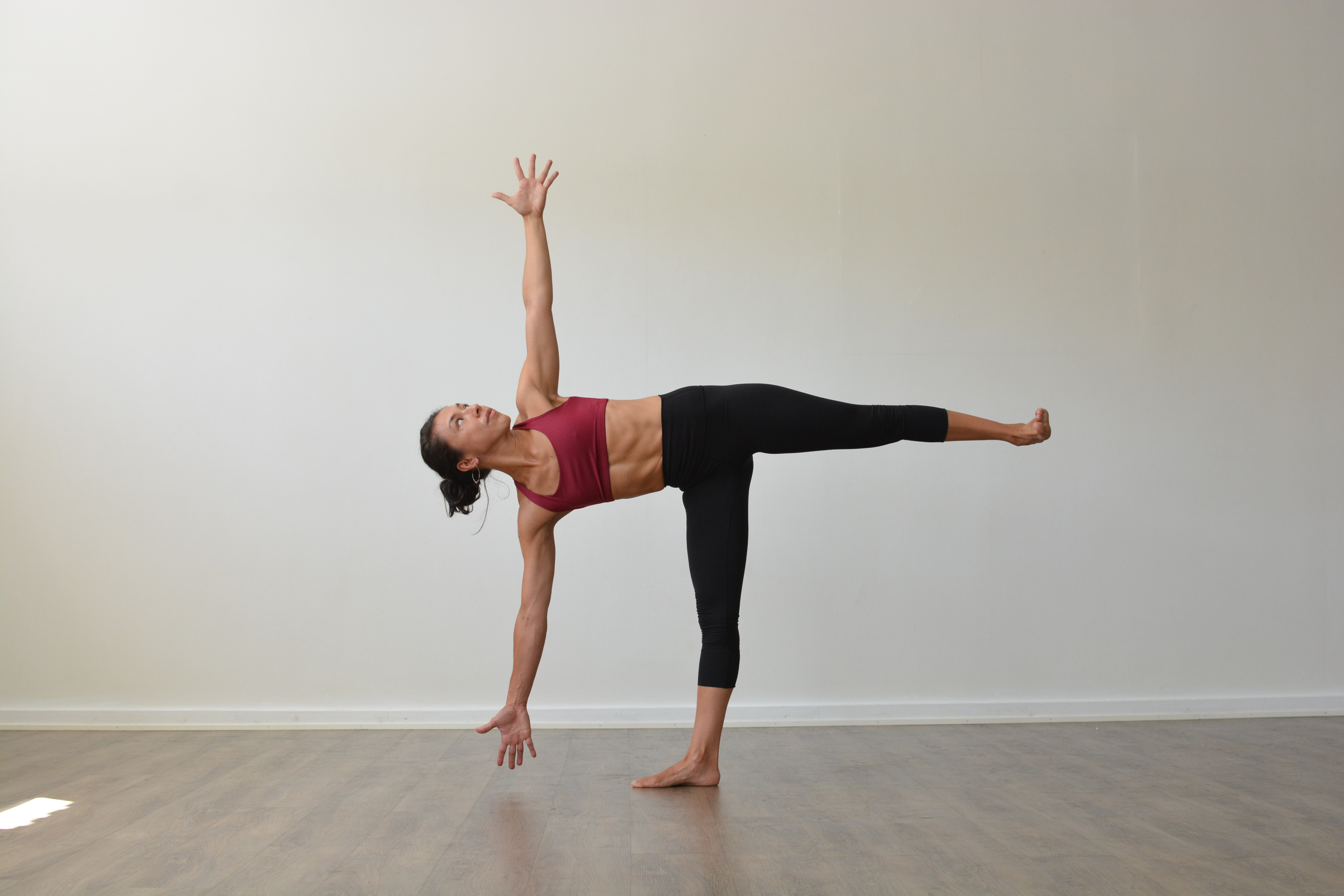 Woman performing half moon pose